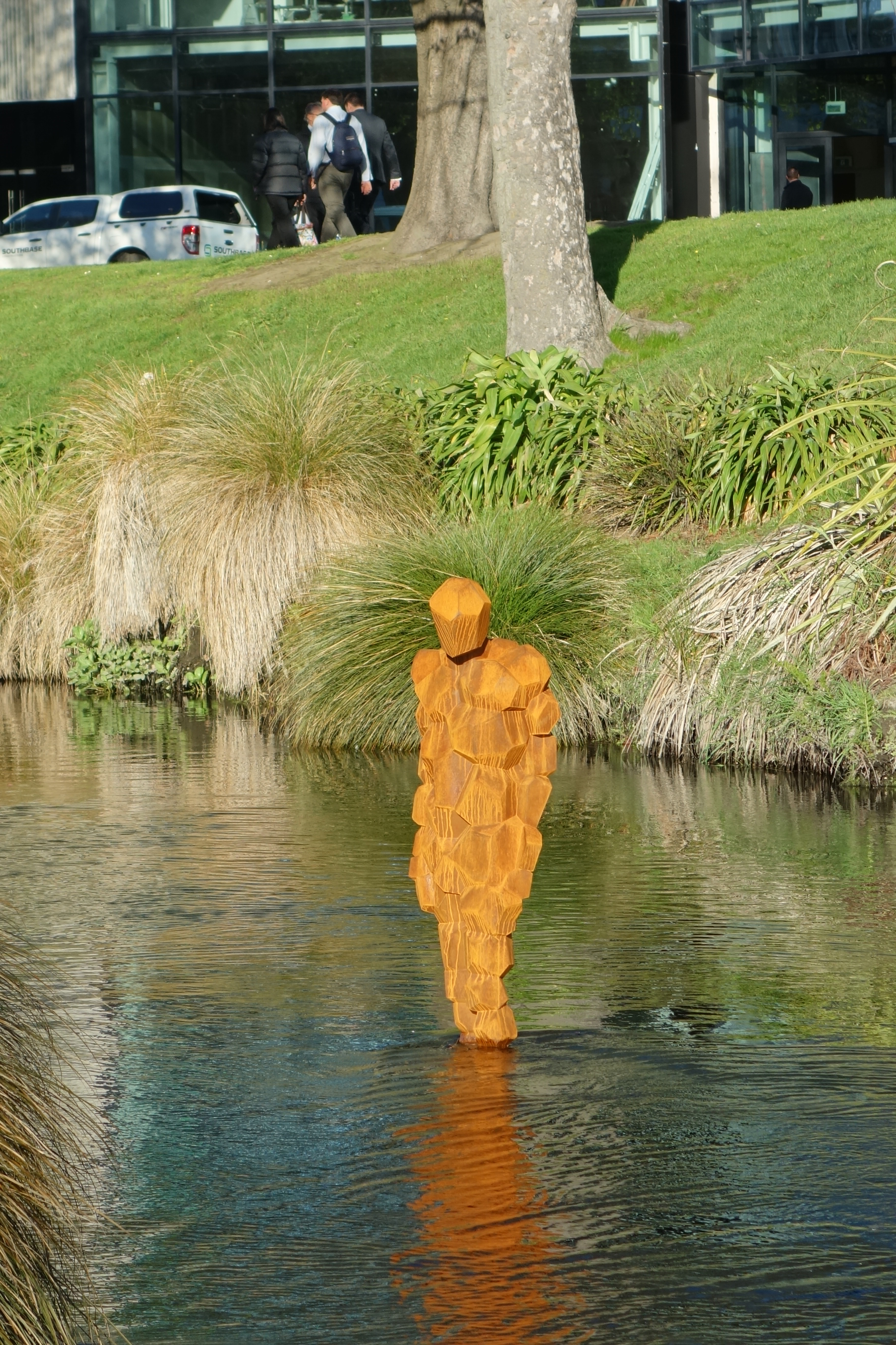 Stay the day after installation